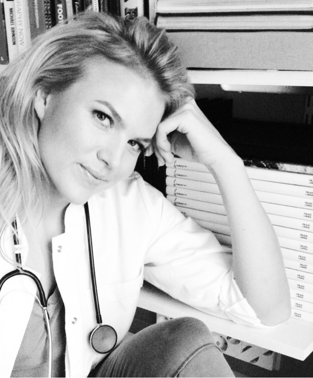 Photo of Emilia Vuorisalmi